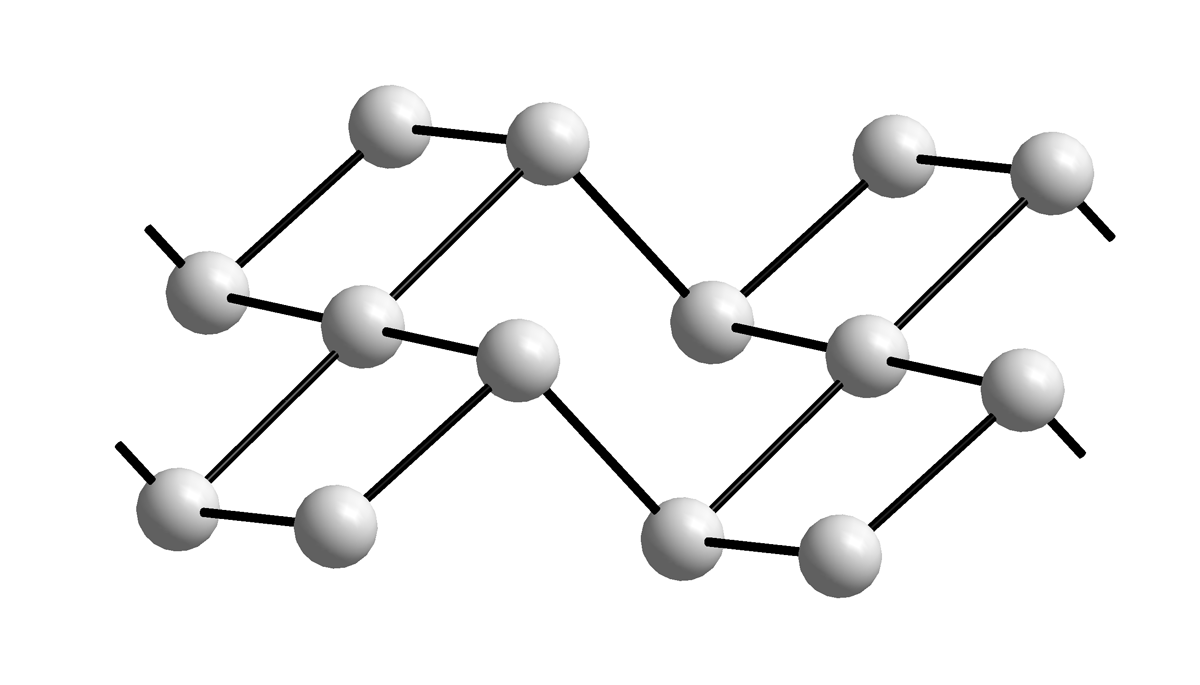 Heptatellurium dication in Te7[Be2Cl6]